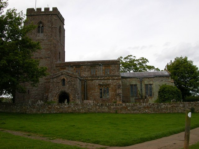 Church of England parish church of the Holy Trinity, Charwelton, Northamptonshire: view from the south